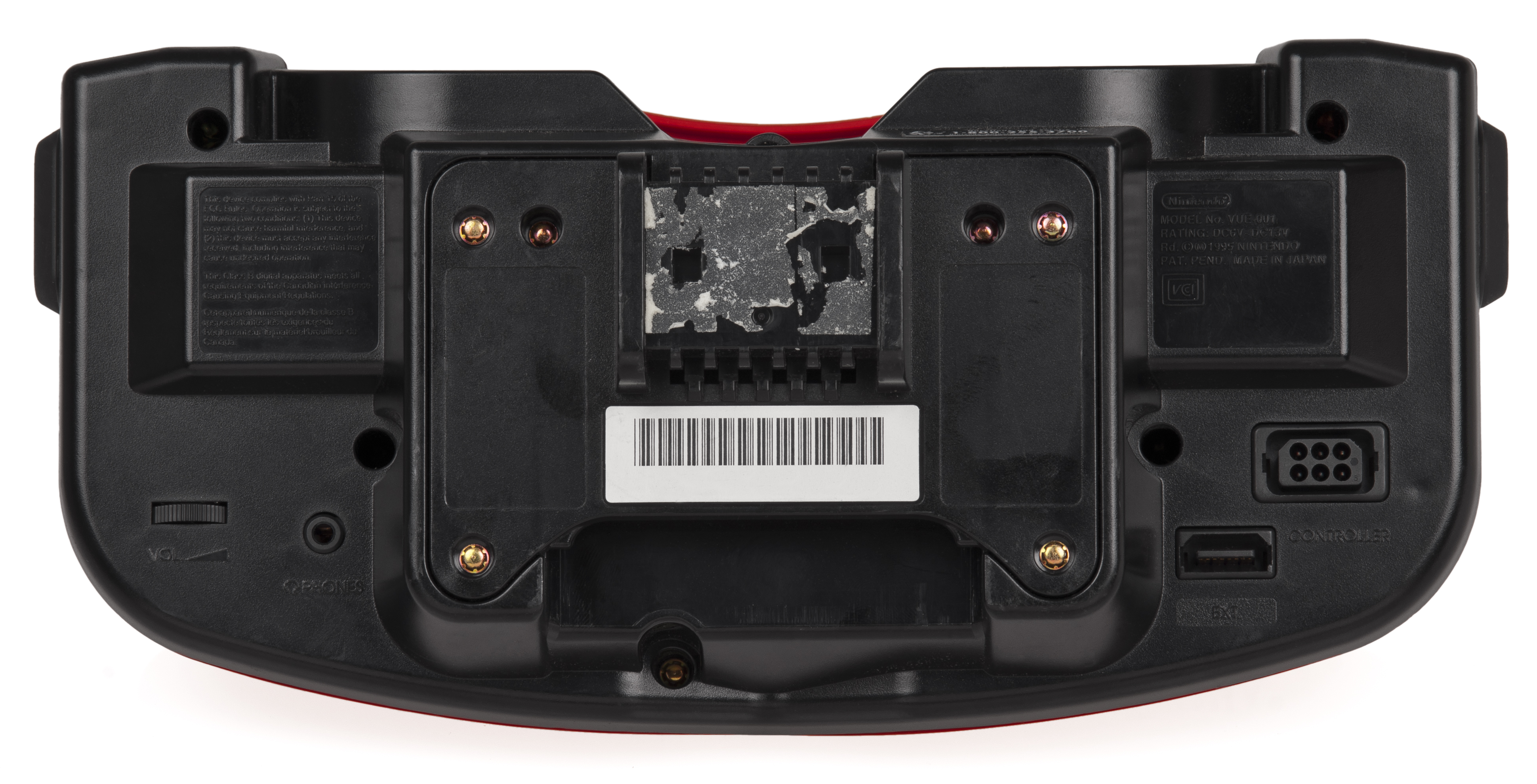 The (banged up) underside of a Virtual Boy, a game console made by Nintendo, that shows various inputs and outputs.